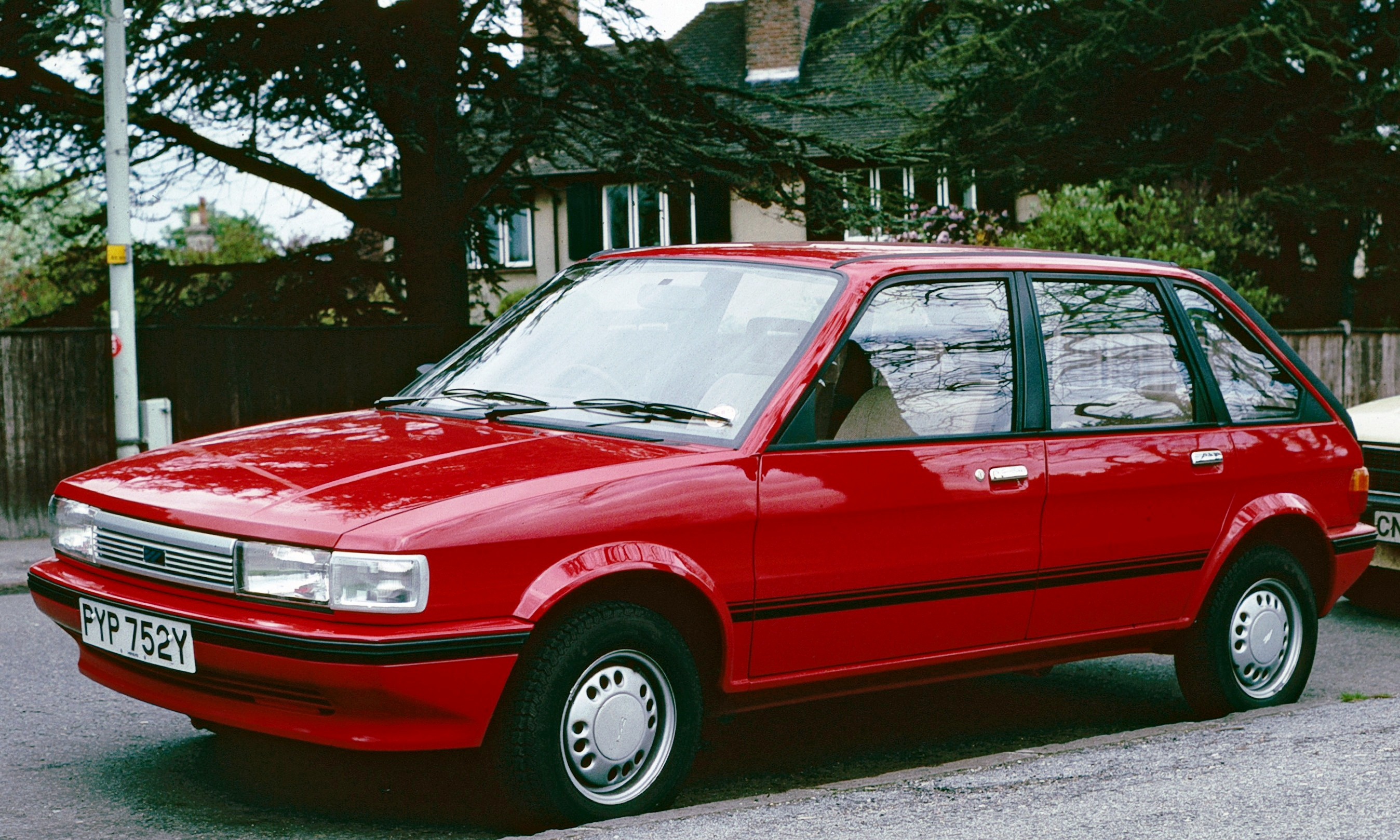 Austin Maestro red, when new DVLA data: Date of first registration April 1983 Year of manufacture 1983 Cylinder capacity 1275 cc Date of last "logbook" issuance 26 February 1998 Car tax due (but apparently unppaid) since January 1999